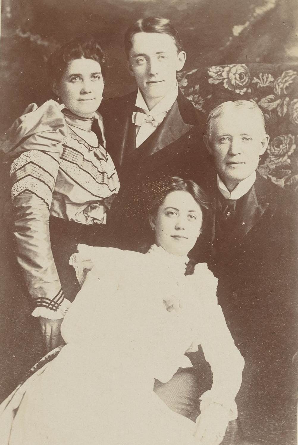 Cabinet card image of American entertainment troupe the Four Cohans. Clockwise from top: George M. Cohan (1878-1942), Jerry Cohan (1848-1917), Josephine "Josie" Cohan (1876-1916), and Helen Cohan (1854-1928). Cropped version. TCS 1.5415, Harvard Theatre Collection, Harvard University